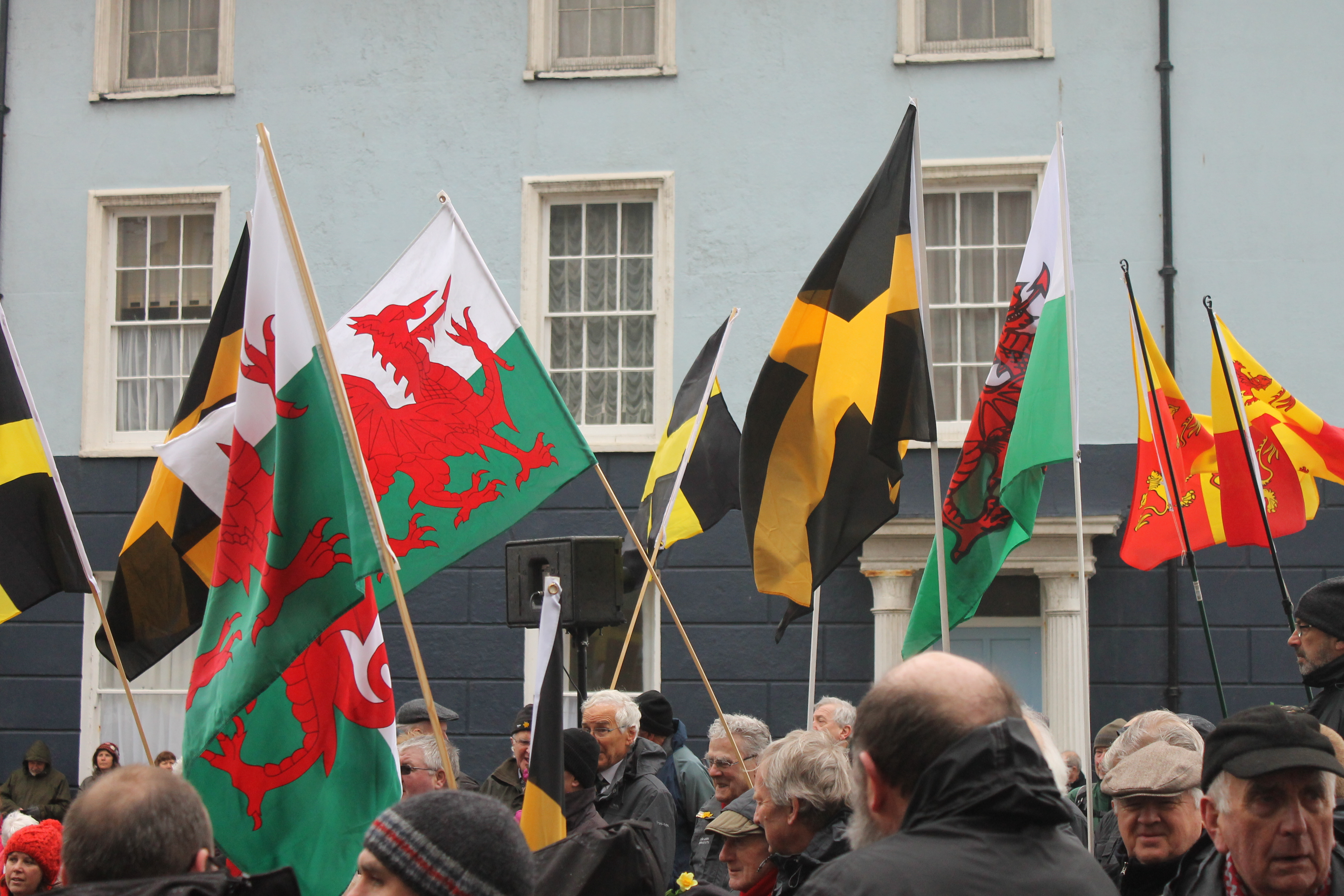 St David's Day Parade, Aberystwyth, Ceredigion, Wales.